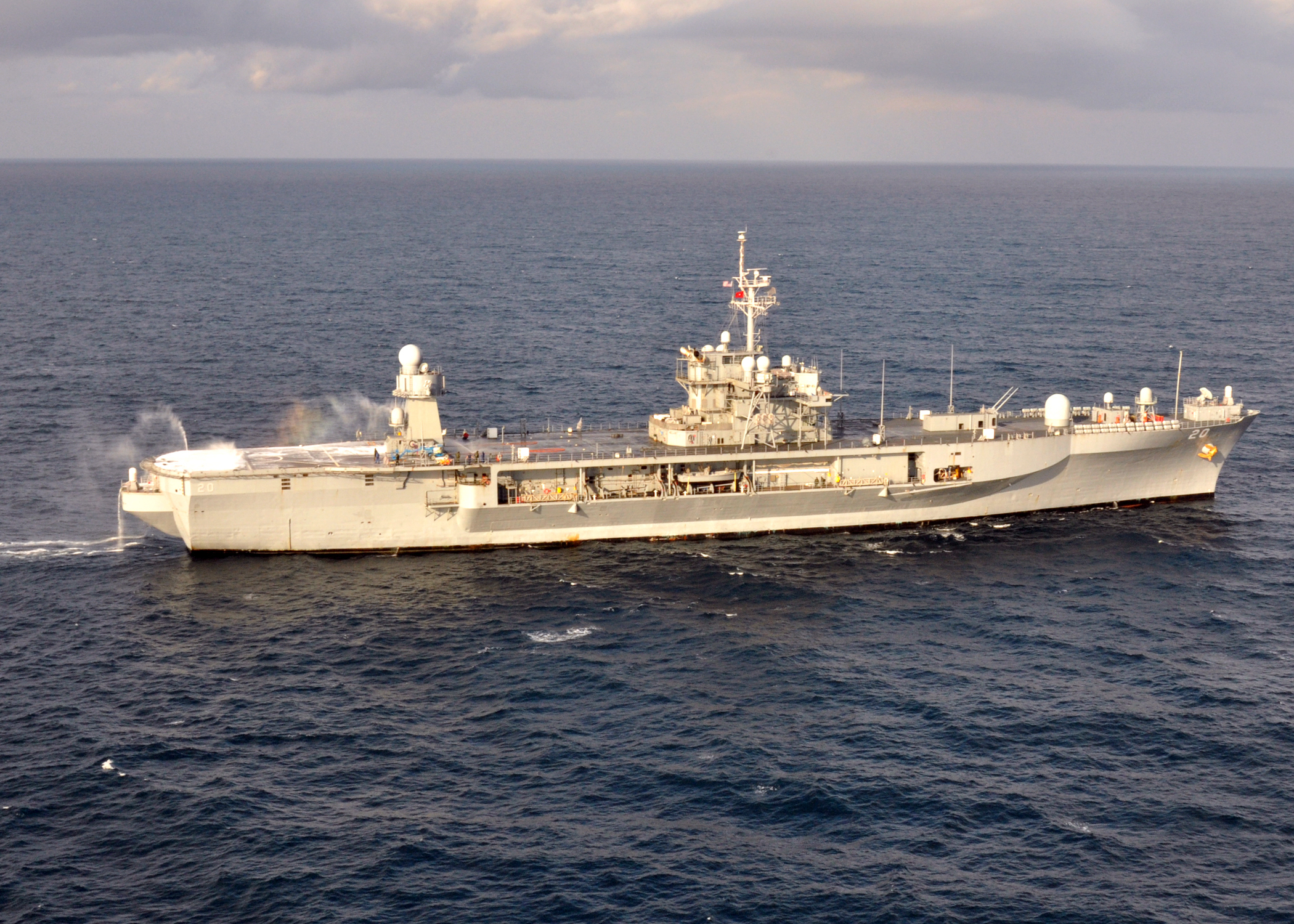 The amphibious command ship USS Mount Whitney tests the ship's saltwater countermeasure wash down system. Mount Whitney is the U.S. 6th Fleet flagship homeported in Gaeta, Italy, and operates with a hybrid crew of U.S. sailors and Military Sealift Command civil service mariners. Unit: Navy Media Content Services DVIDS Tags: test; Mediterranean Sea; U.S. Navy; amphibious command ship; USS Mount Whitney (LCC 20); countermeasure wash down system